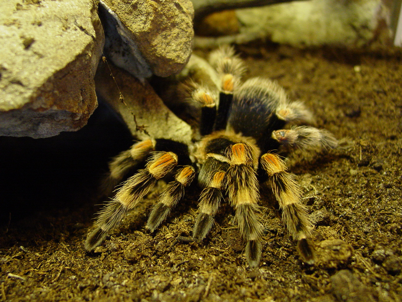 Brachypelma smithi, male